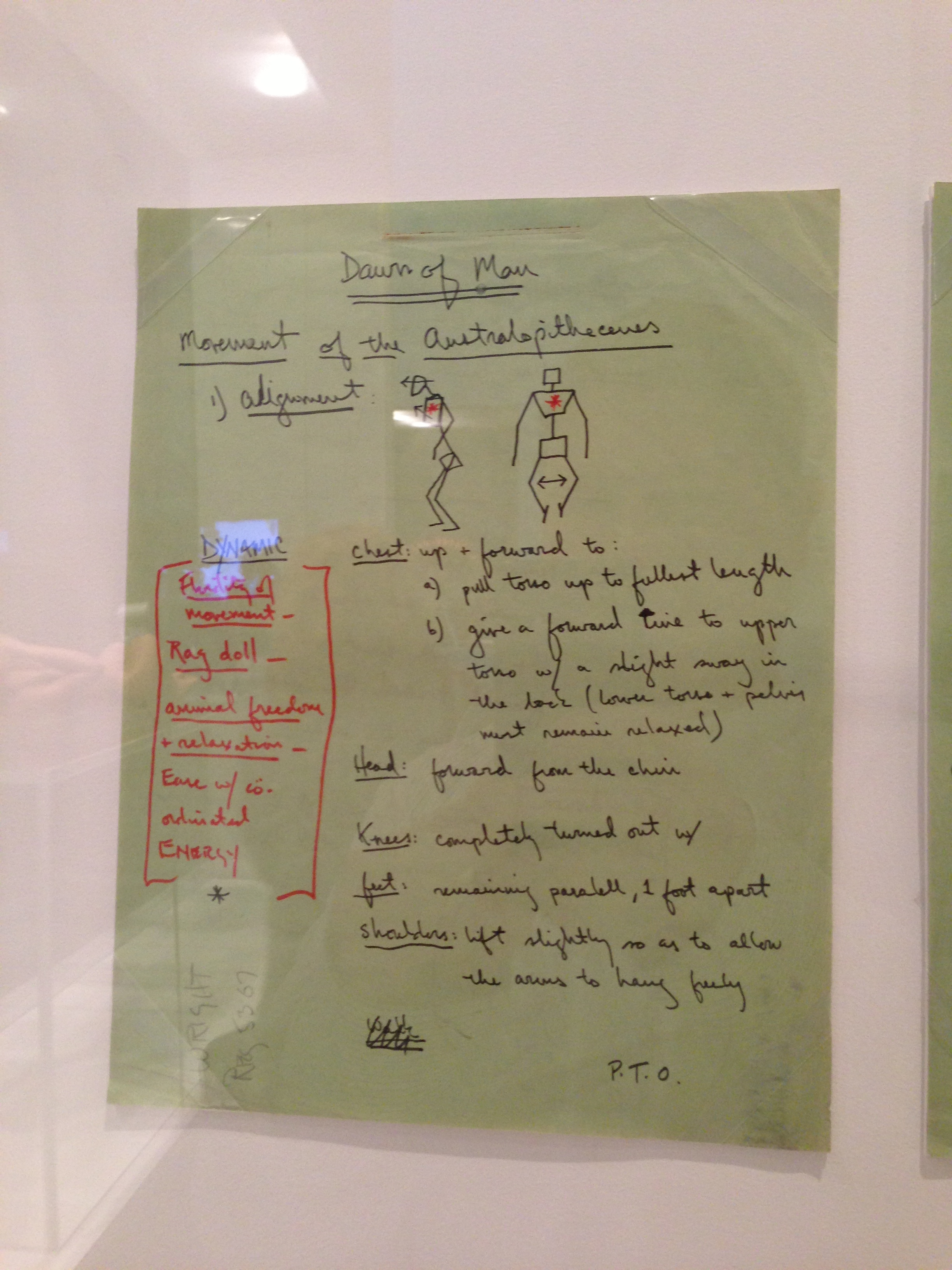 Stanley Kubrick exhibit at Los Angeles County Museum of Art.